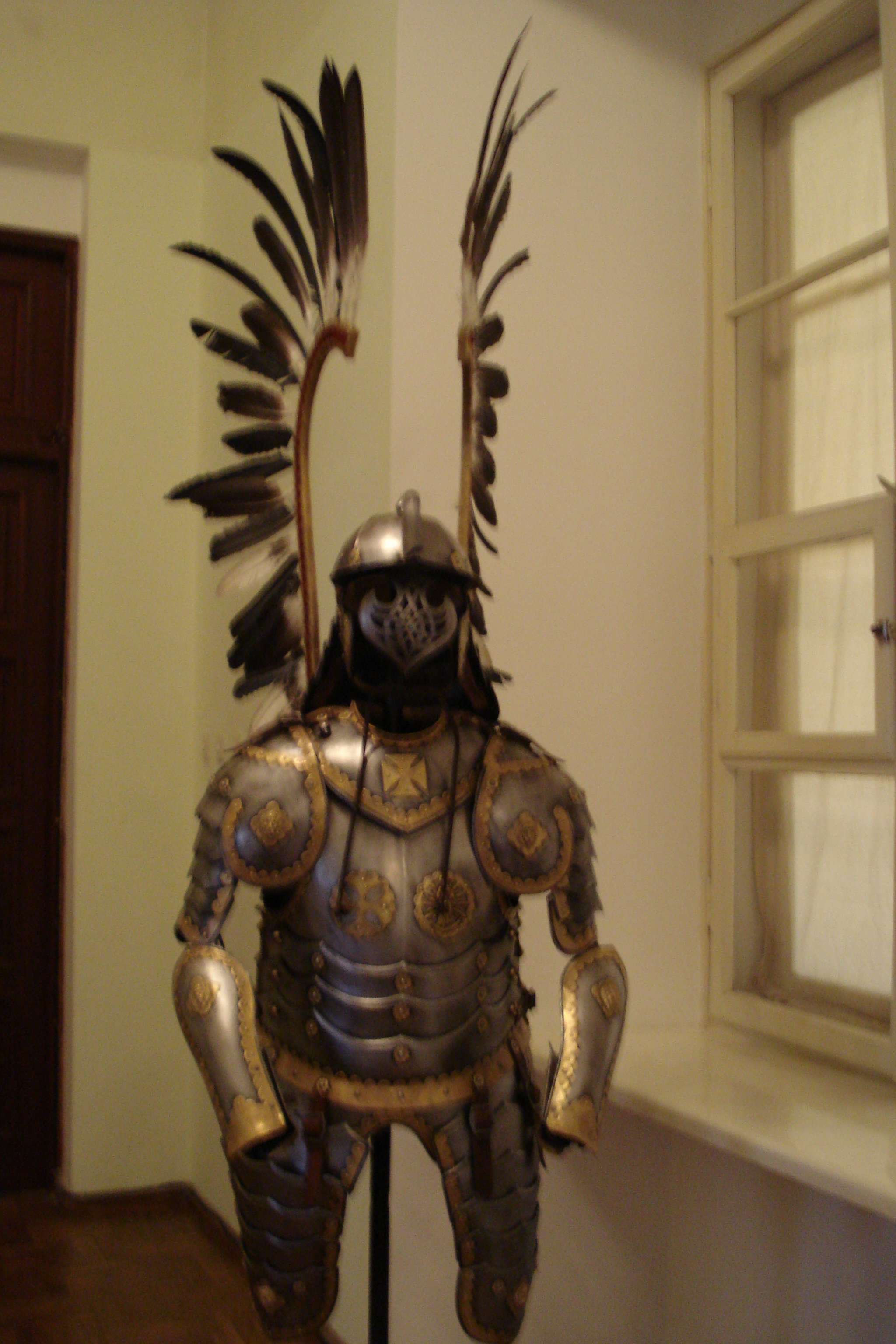 Armour in the Polish embassy in Vilnius (Švento Jono street 3)